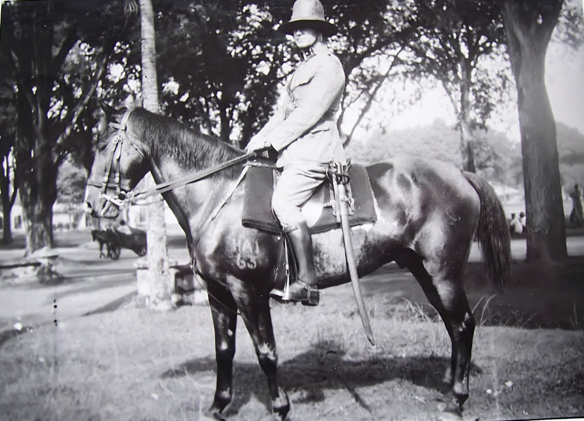 W.L.A. du Celliée Muller as a captain of the artillery of the Royal Dutch Indies Army (Koninklijk Nederlands Indisch Leger,KNIL), Batavia, 1927